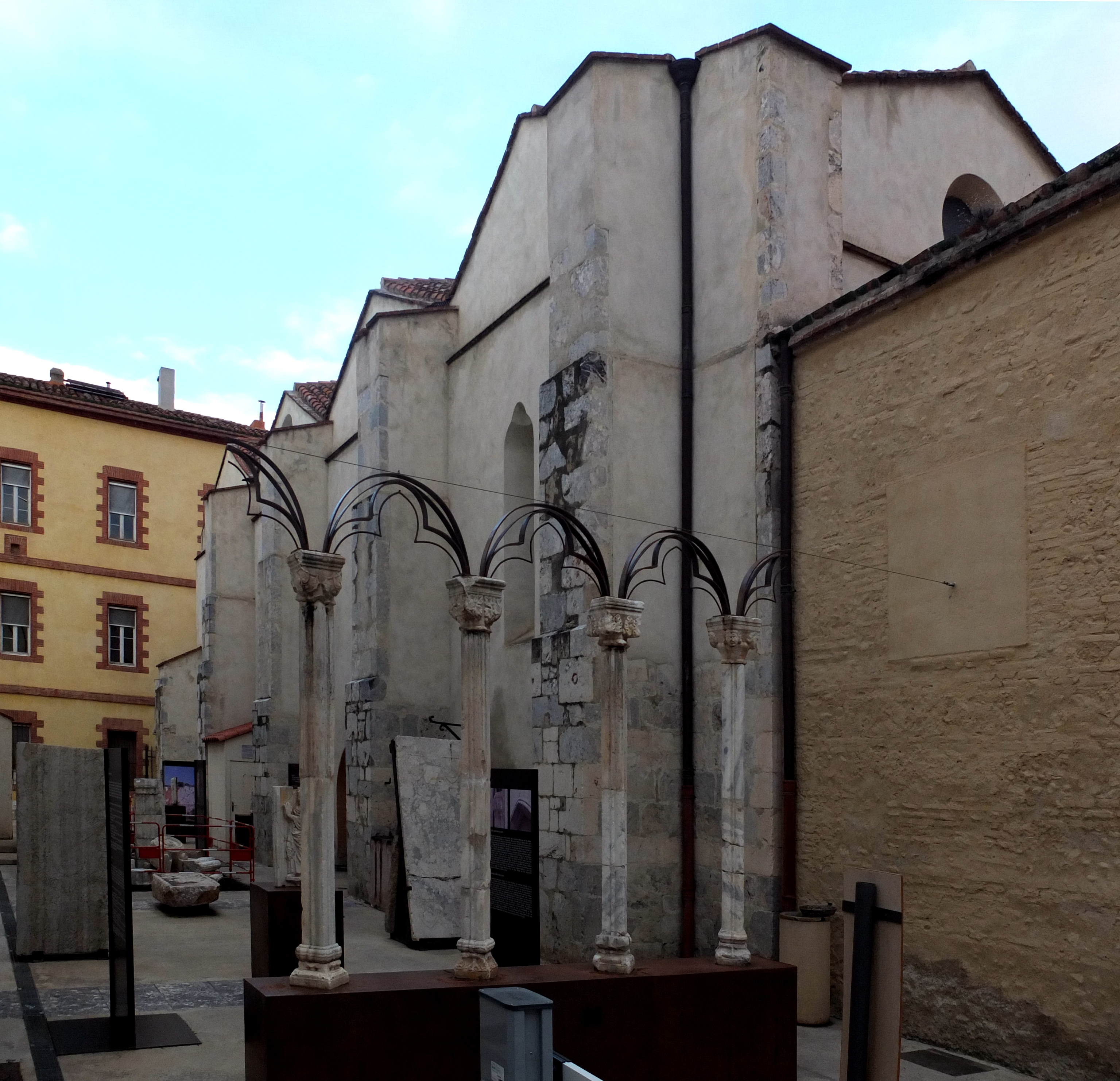 Chapel "Notre-Dame-des-Anges" (view from W) with lapidarium, Perpignan